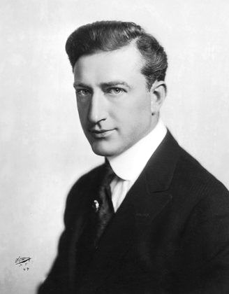 Portrait of American actor Francis X. Bushman (1883–1966) by Sarony.